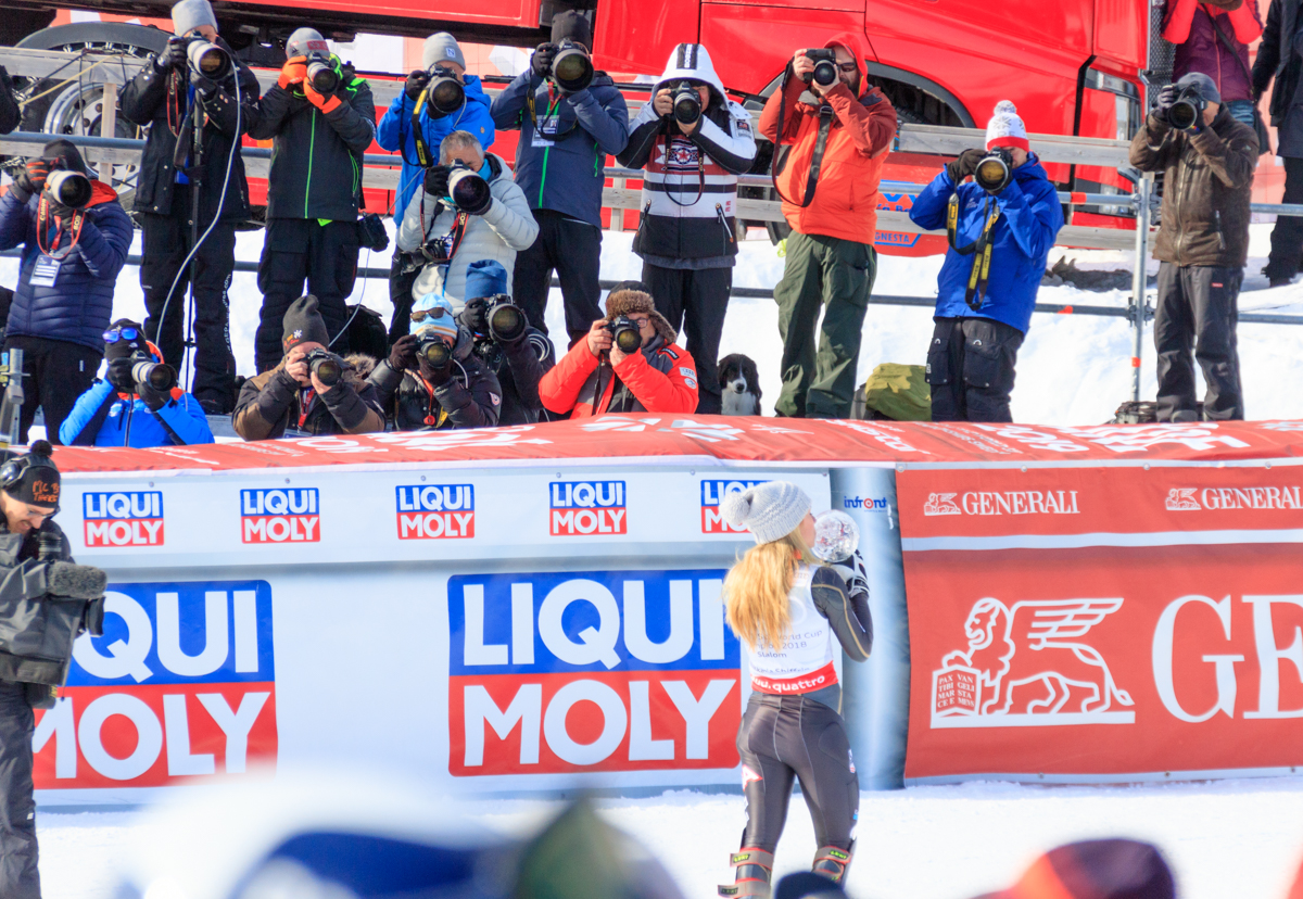 Mikaela Shiffrin in front of photographers in Åre 2018